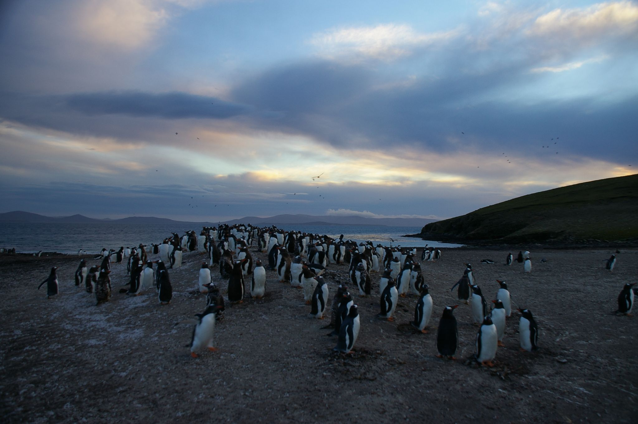 Gentoo Penguins (Pygoscelis papua), Saunders Island, Falkland Islands